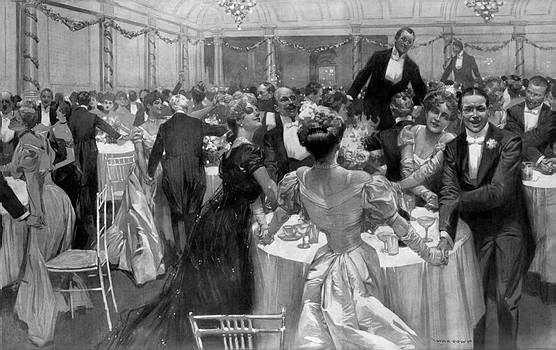 New Year's Eve at the Savoy Restaurant in the Savoy Hotel. Scene from The Illustrated London News - Saturday, January 5, 1907 (No. 3533, vol. CXXX) - Centrefold p.20 - drawn by Max Cowper.